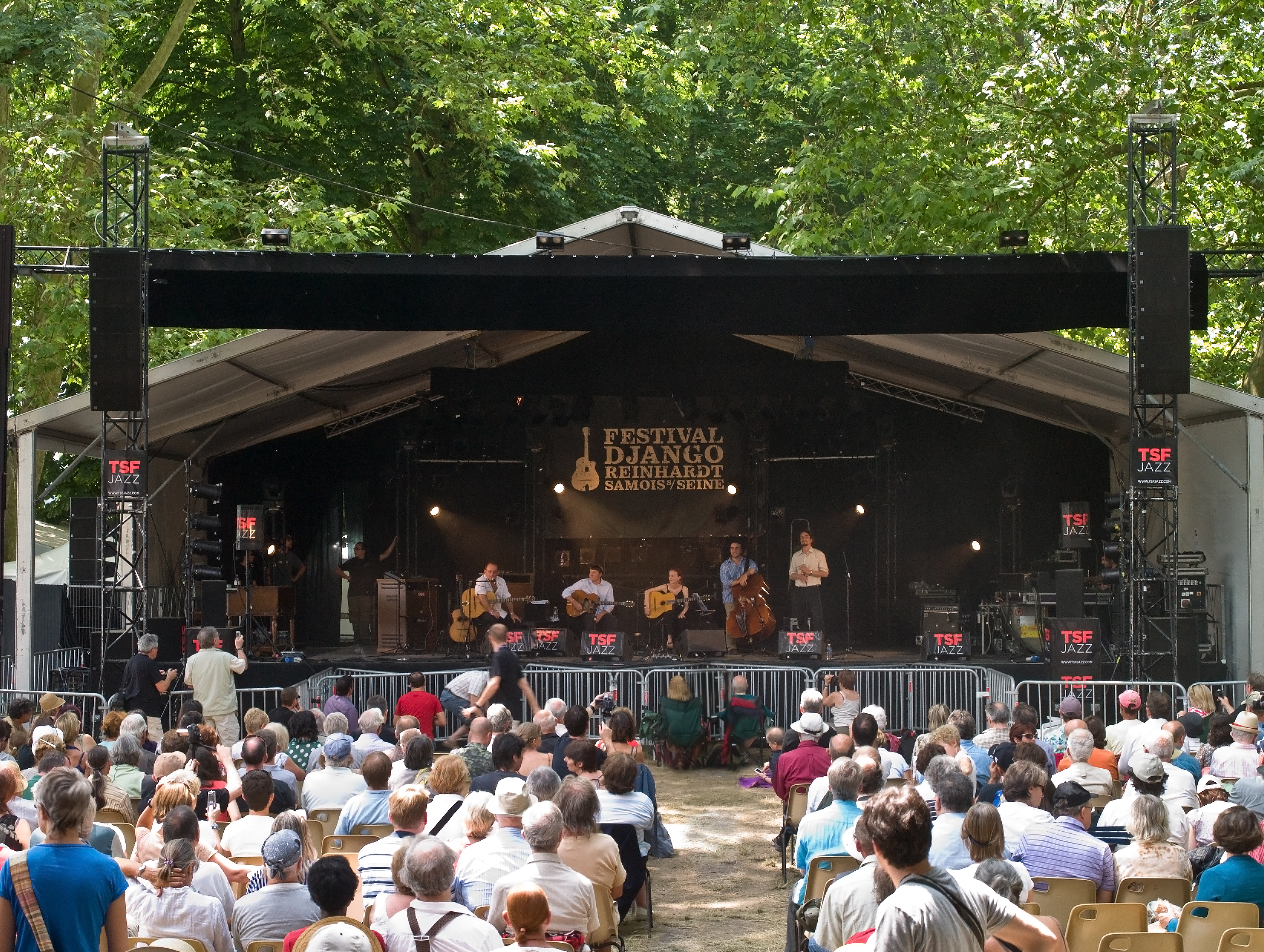 30th edition of the Django Reinhardt Festival in Samois-sur-Seine (Seine-et-Marne, France), 2009. On stage: Kamlo quintet.